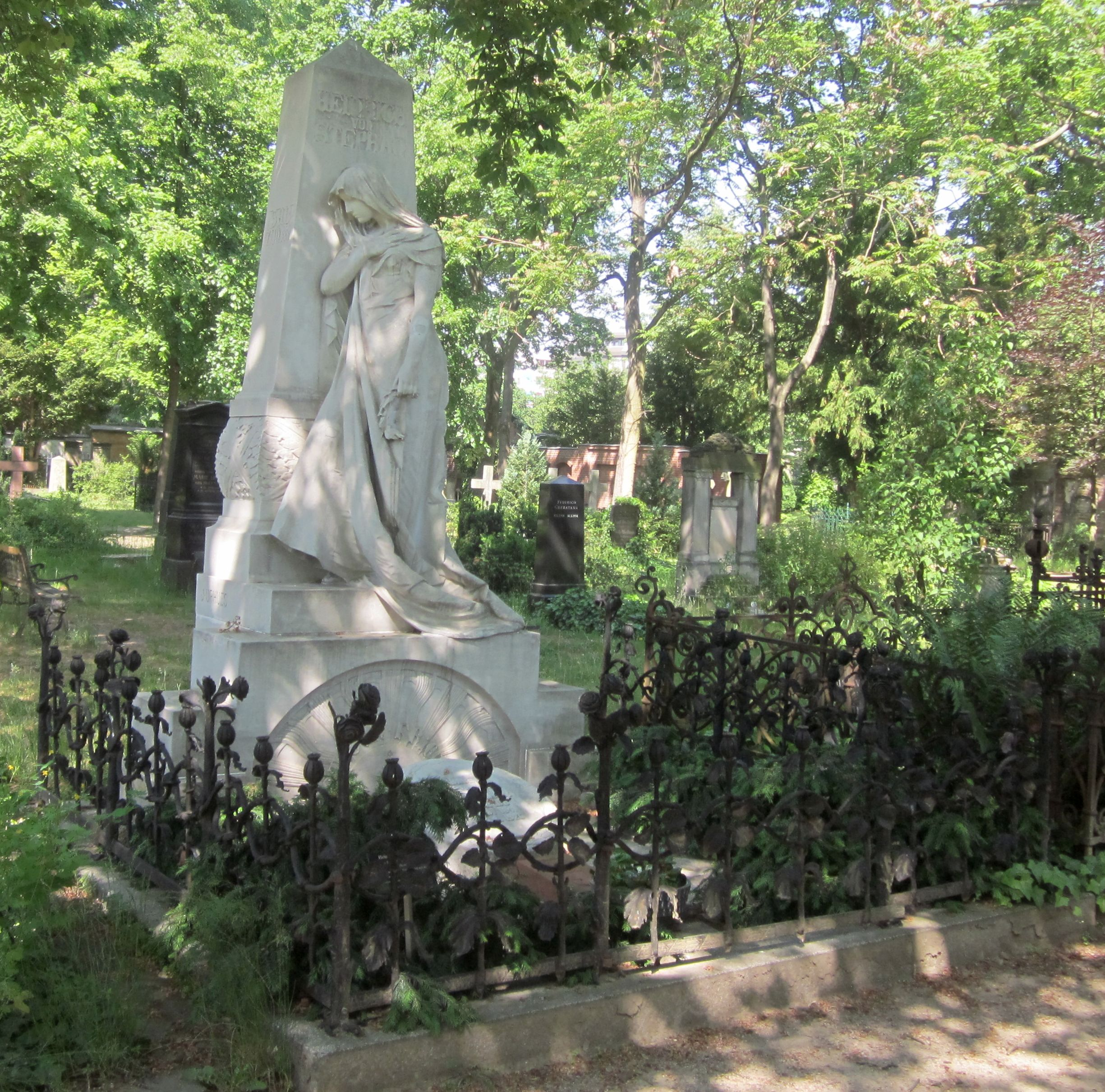 Grave of the General Post Director and organizer of the German postal system Heinrich von Stephan (1831-1897) on the Cemetery of the Trinity Church at Mehringdamm in Berlin-Kreuzberg. Grave of Honor of the State of Berlin. The statue of a mourning woman leaning against an obelisk was designed by the sculptor Joseph Uphues and realized in the workshop of Valentino Casal.